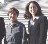 In Washington today, U.S. Senator Barbara Boxer met with America's Cup Challenger Dawn Riley and Olympic Soccer Champion Julie Foudy.